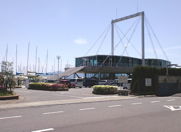 Usimado Yacht Harbor